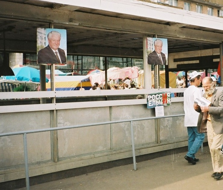 Entrance to the "Preobrazhenskaia Ploshad" metro station in Moscow during the electoral campaign of presidential elections during which Boris Yeltsin has been re-elected for his second term.